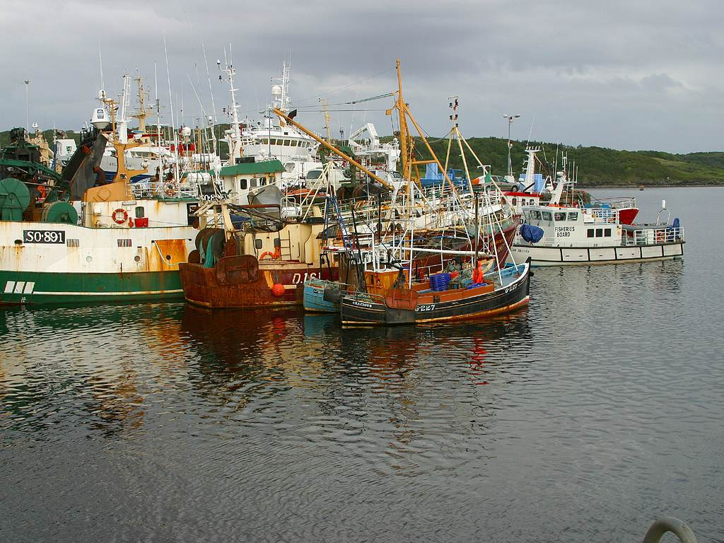 Fishing boats in Killybegs Harbour, County Donegal, Ireland